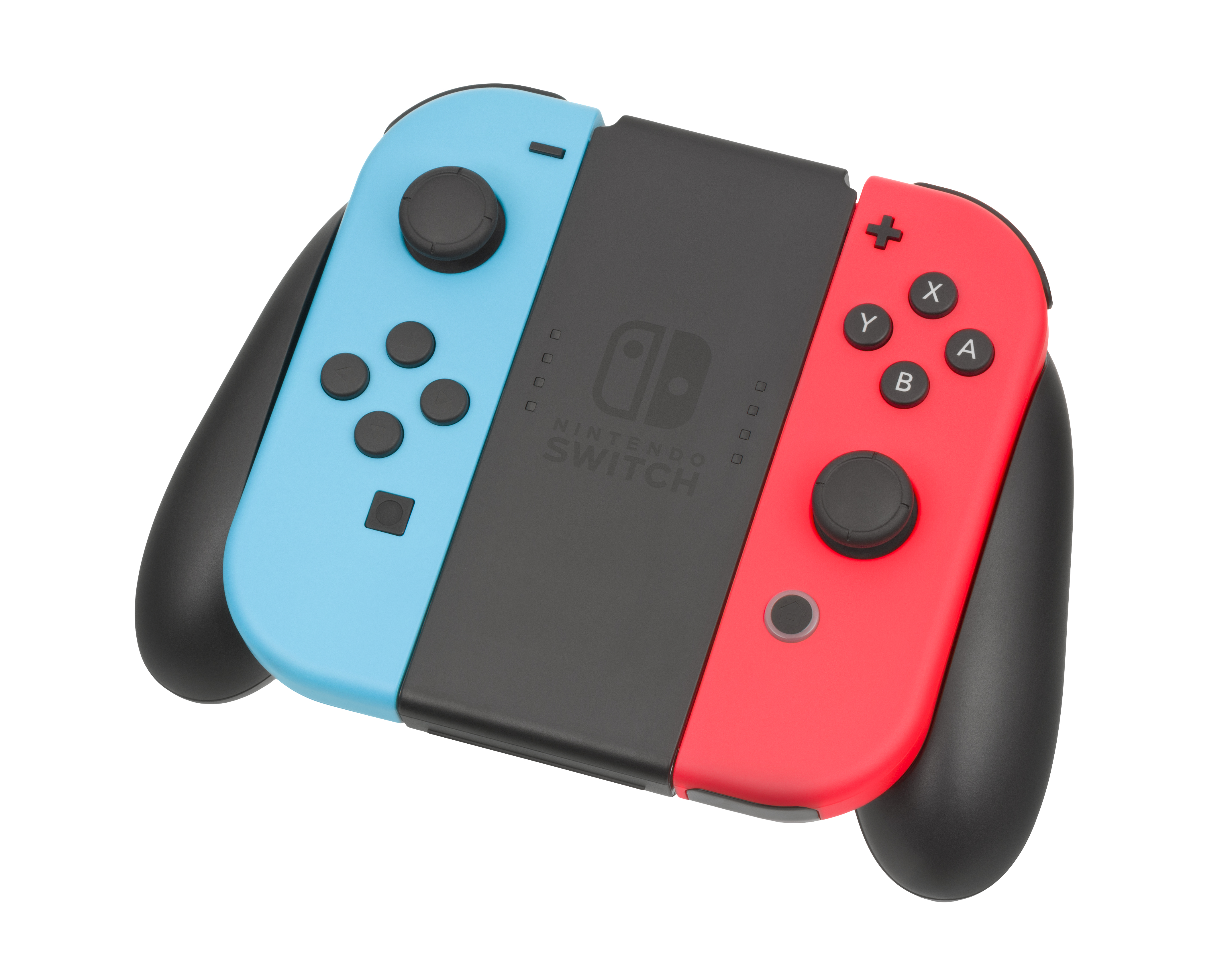 The Joy-Cons for the Nintendo Switch, a hybrid portable/home console released by Nintendo in 2017. They are shown here in the grip that is included with the console.